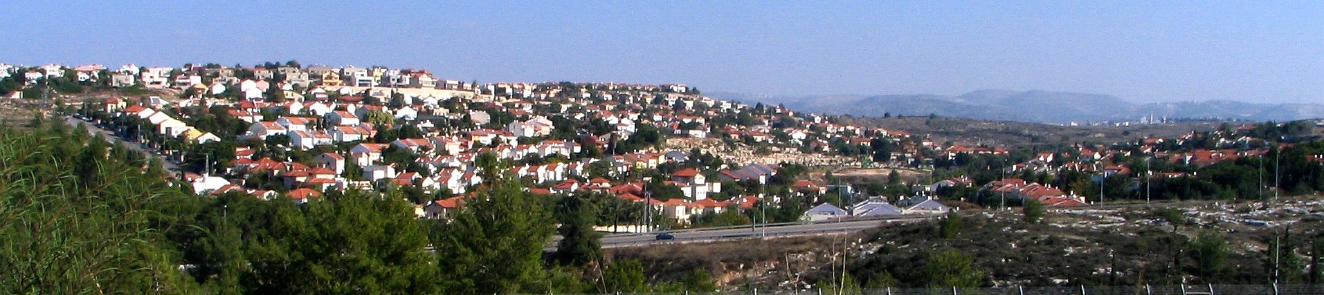 Panorama of settlement Lapid in Israel